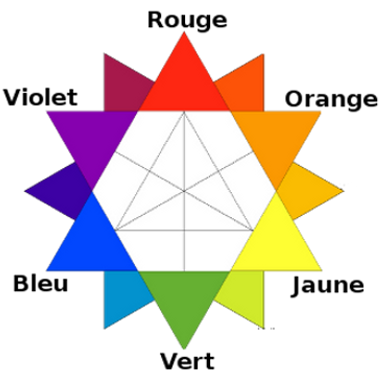 RYB Colour star (painting)